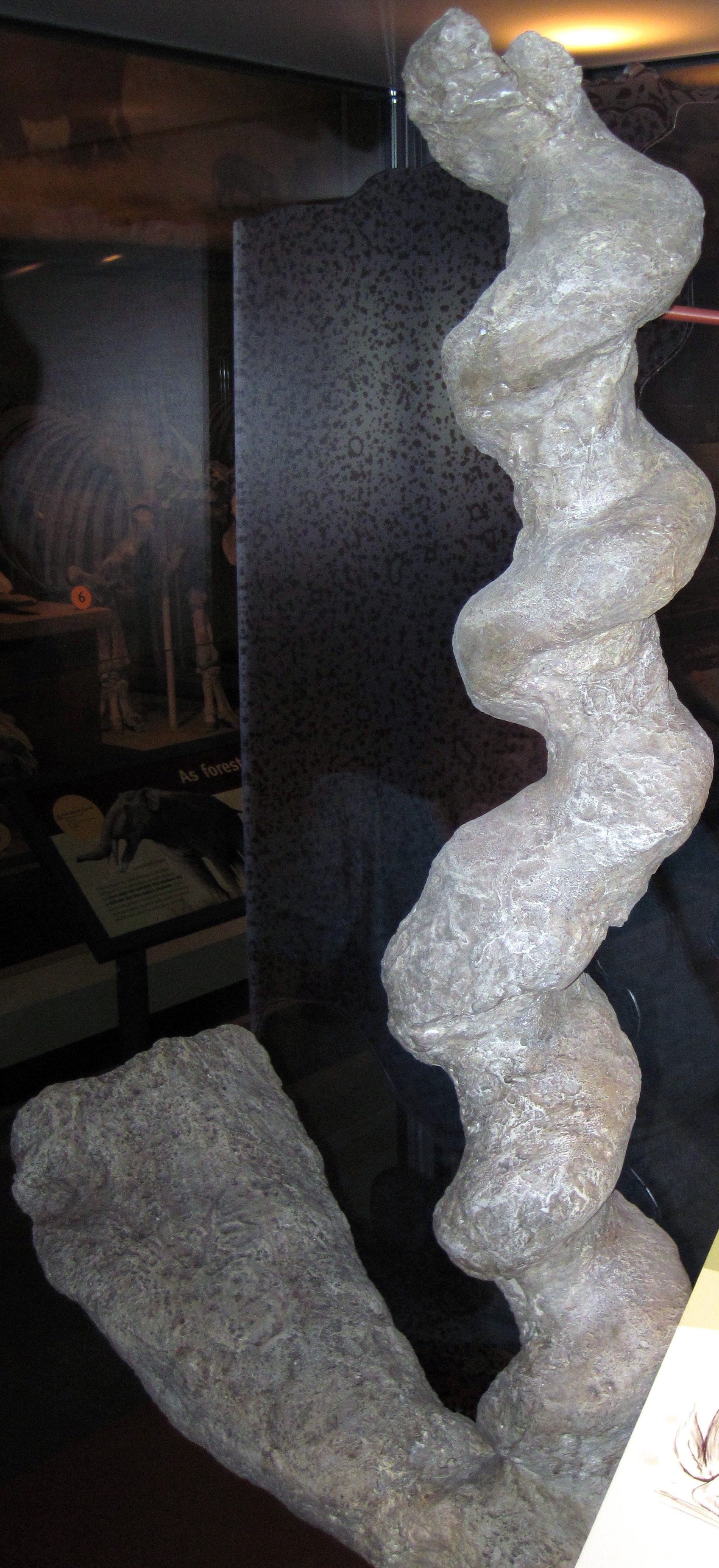 Daemonelix burrow from the Miocene of Nebraska, USA (reproduction, public display, Field Museum of Natural History, Chicago, Illinois, USA). Daemonelix burrows are commonly called “Devil’s corkscrews”. These distinctive, large, spiral burrows were made by an ancient species of terrestrial beaver. The spiraled portion of these trace fossils is usually about 1.5 to 2 meters tall. The base of the spiraled portion merges with a subhorizontal tube. The burrows are filled with siliciclastic sediments that are better cemented compared with surrounding materials. Stratigraphy: paleosol in the Harrison Formation, upper Middle Miocene Locality: Sioux County, northwestern Nebraska, USA Trace fossils are any indirect evidence of ancient life. They refer to features in rocks that do not represent parts of the body of a once-living organism. Traces include footprints, tracks, trails, burrows, borings, and bitemarks. Body fossils provide information about the morphology of ancient organisms, while trace fossils provide information about the behavior of ancient life forms. Interpreting trace fossils and determination of the identity of a trace maker can be straightforward (for example, a dinosaur footprint represents walking behavior) or not. Sediments that have trace fossils are said to be bioturbated. Burrowed textures in sedimentary rocks are referred to as bioturbation. Trace fossils have scientific names assigned to them, in the same style & manner as living organisms or body fossils.